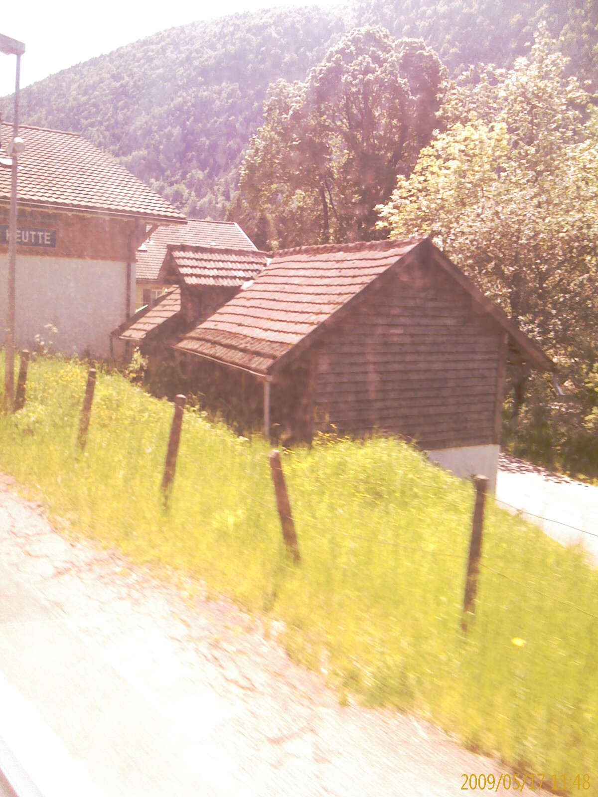 La Heutte, canton of Bern, SwitzerlandEsperanto: La Heutte, Kantono Berno, Svislando